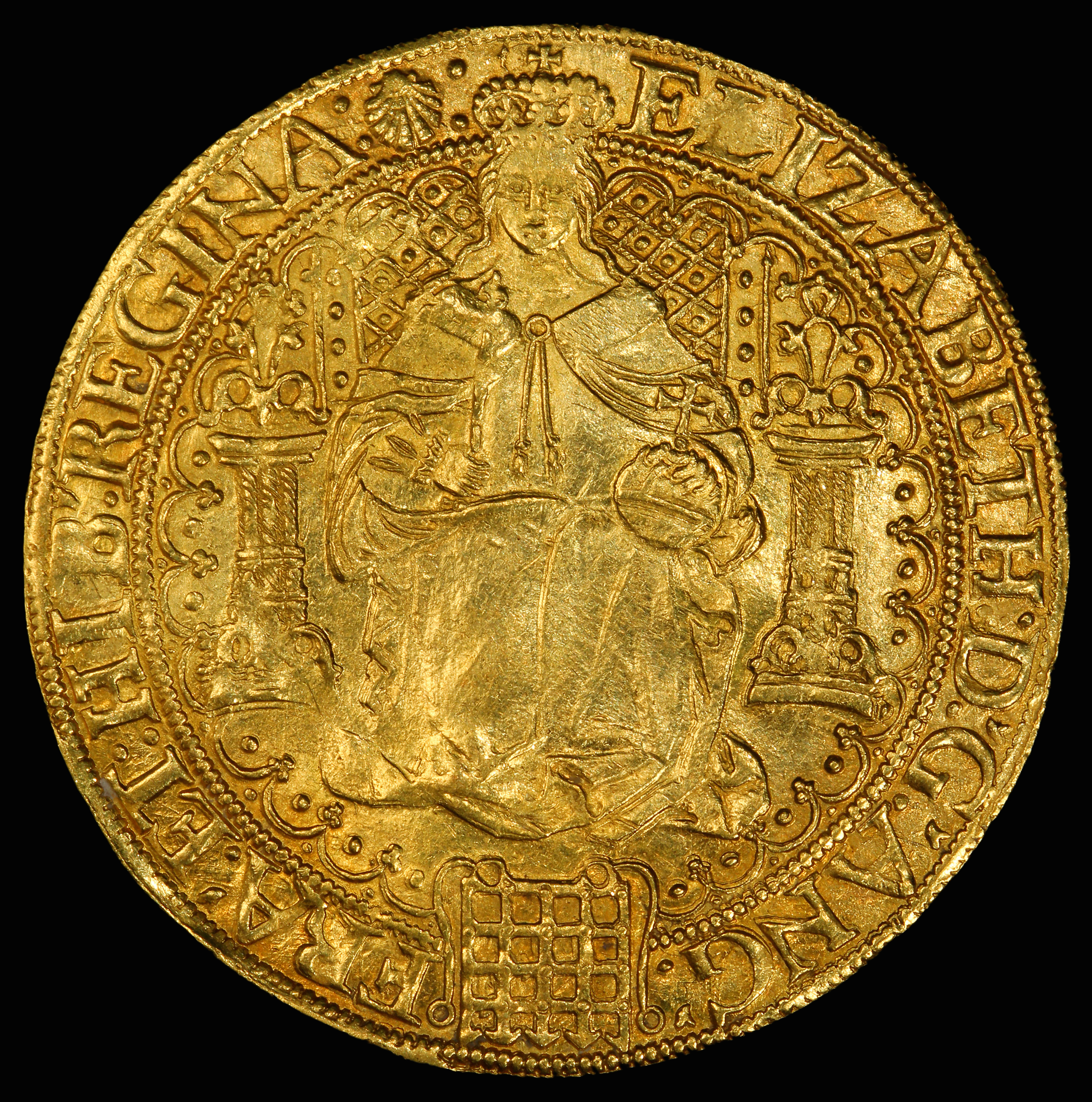 England (Great Britain) Sovereign of Elizabeth I (obv)